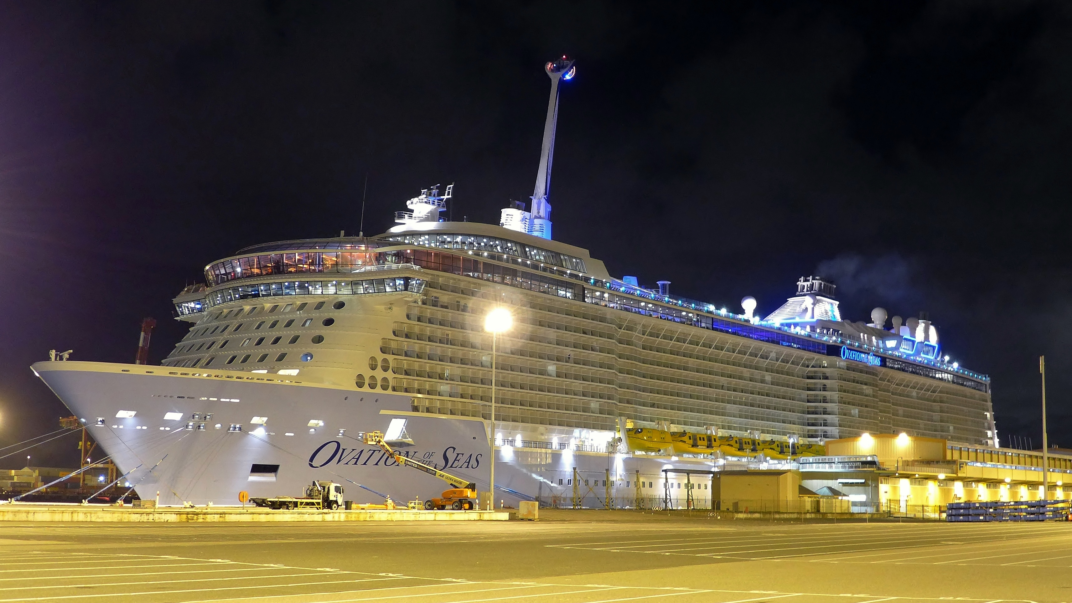 Cruise ship Ovation of the Seas, with North Star viewing platform raised, at "F" berth, alongside the Fremantle Passenger Terminal, Victoria Quay, in the inner harbour of Fremantle Harbour, Western Australia.